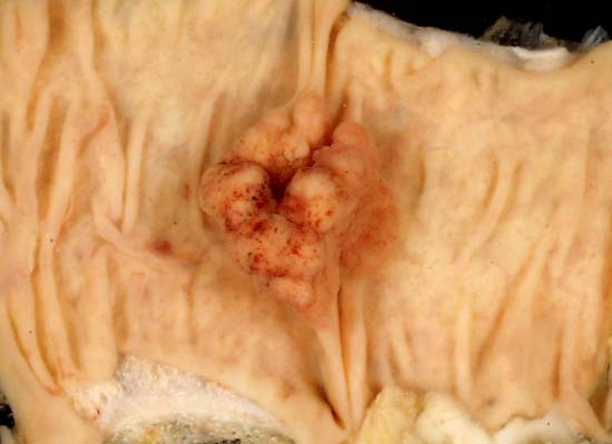 Adenomatous Polyp of the Colon This 2.5-centimeter adenomatous polyp was serendipitously found in a right colectomy specimen. The colon was removed to bypass an extrinsic obstruction caused by metastatic ovarian cancer. In the picture above, the long axis of the opened bowel is horizontal, and the mucosa is viewed en face. Both photos were shot with an Olympus D-600L digital camera mounted on a copystand illuminated by 4 photofloods. In the top picture, the specimen was submerged in water, while the specimen in the bottom picture was shot dry. Photograph by Ed Uthman, MD. Public domain. Posted 15 Jan 99